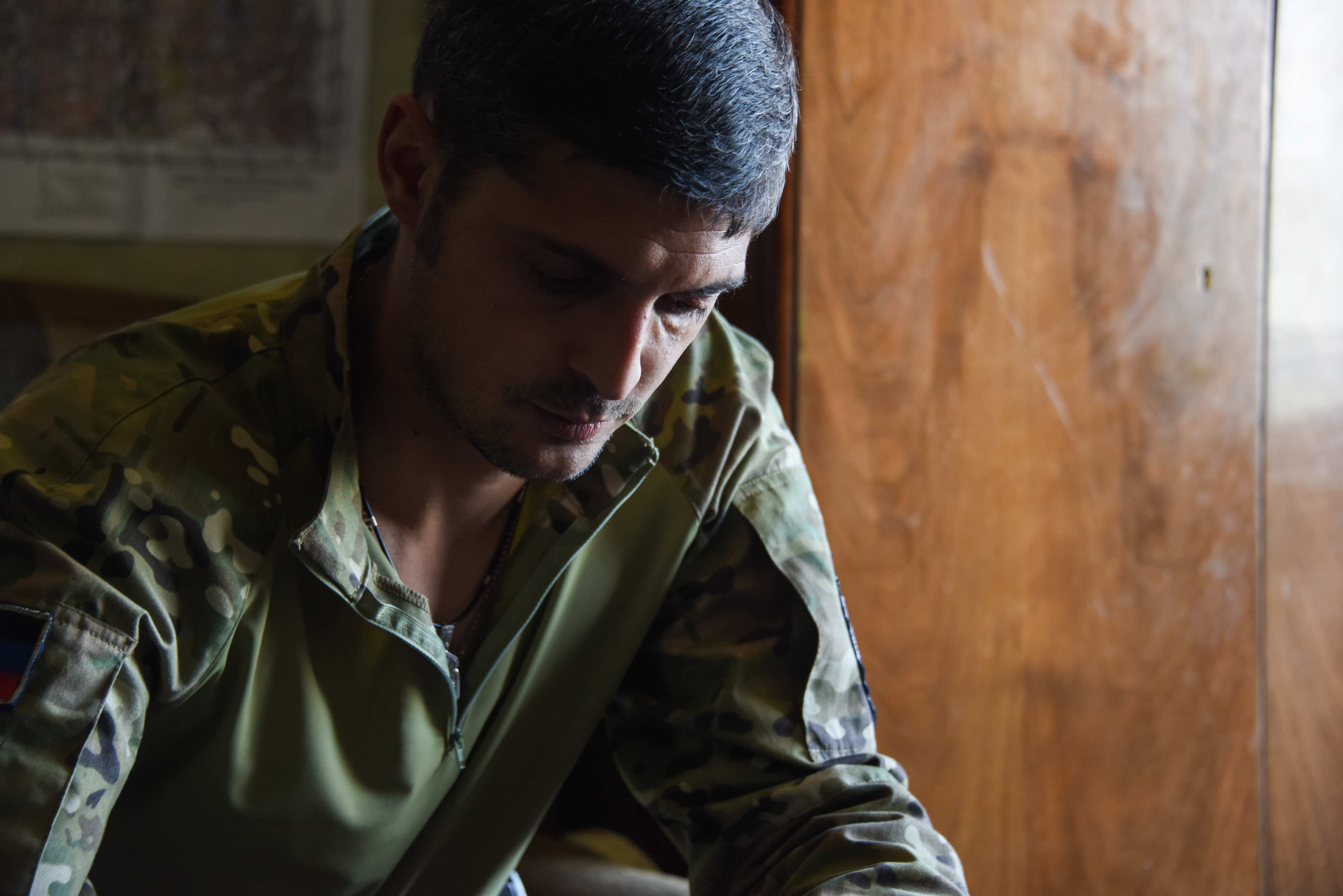 A Russia-backed armed rebel, Donetsk, June 9, 2015